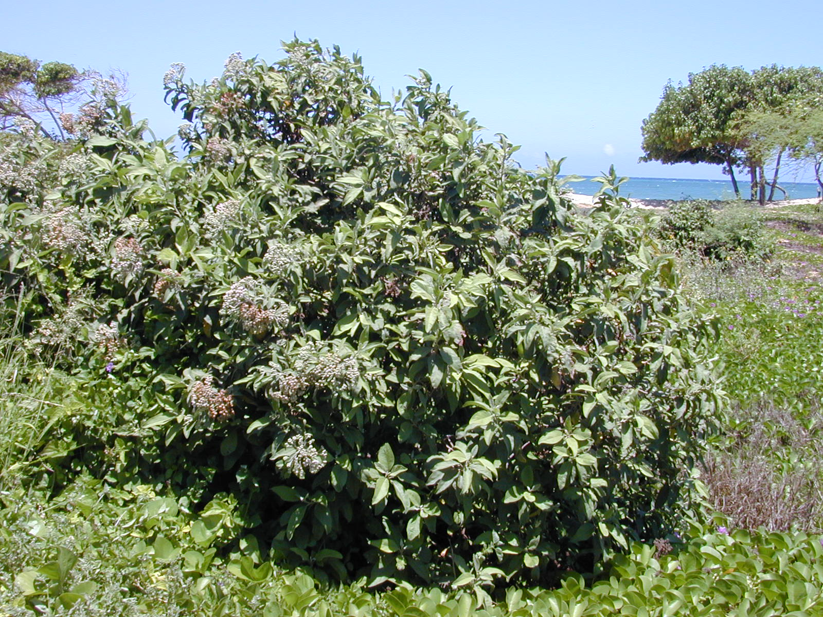 Pluchea carolinensis (habit). Location: Maui, Kanaha Beach